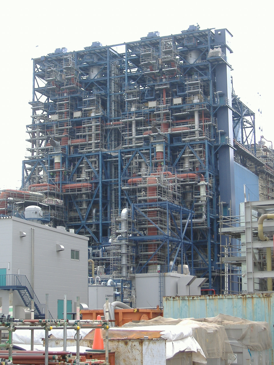 Desulfurization system (J-Power Isogo Thermal Power Station)